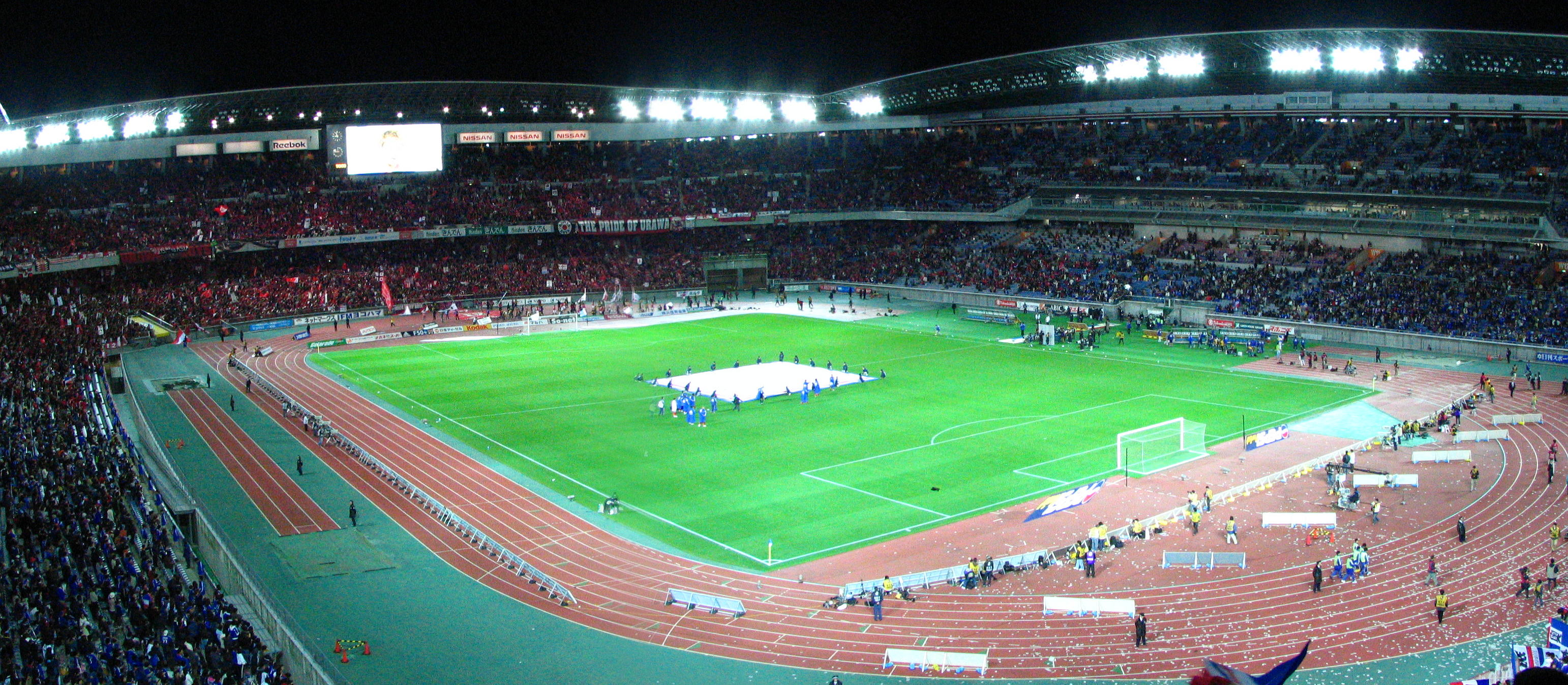 Yokohama International Stadium.(Nissan Stadium) Yokohama-City.Japan